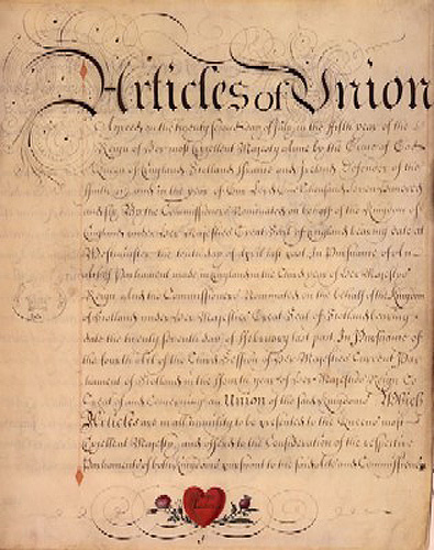 Reproduction of the origional "Articles of Union with Scotland 1707" Source: [1]